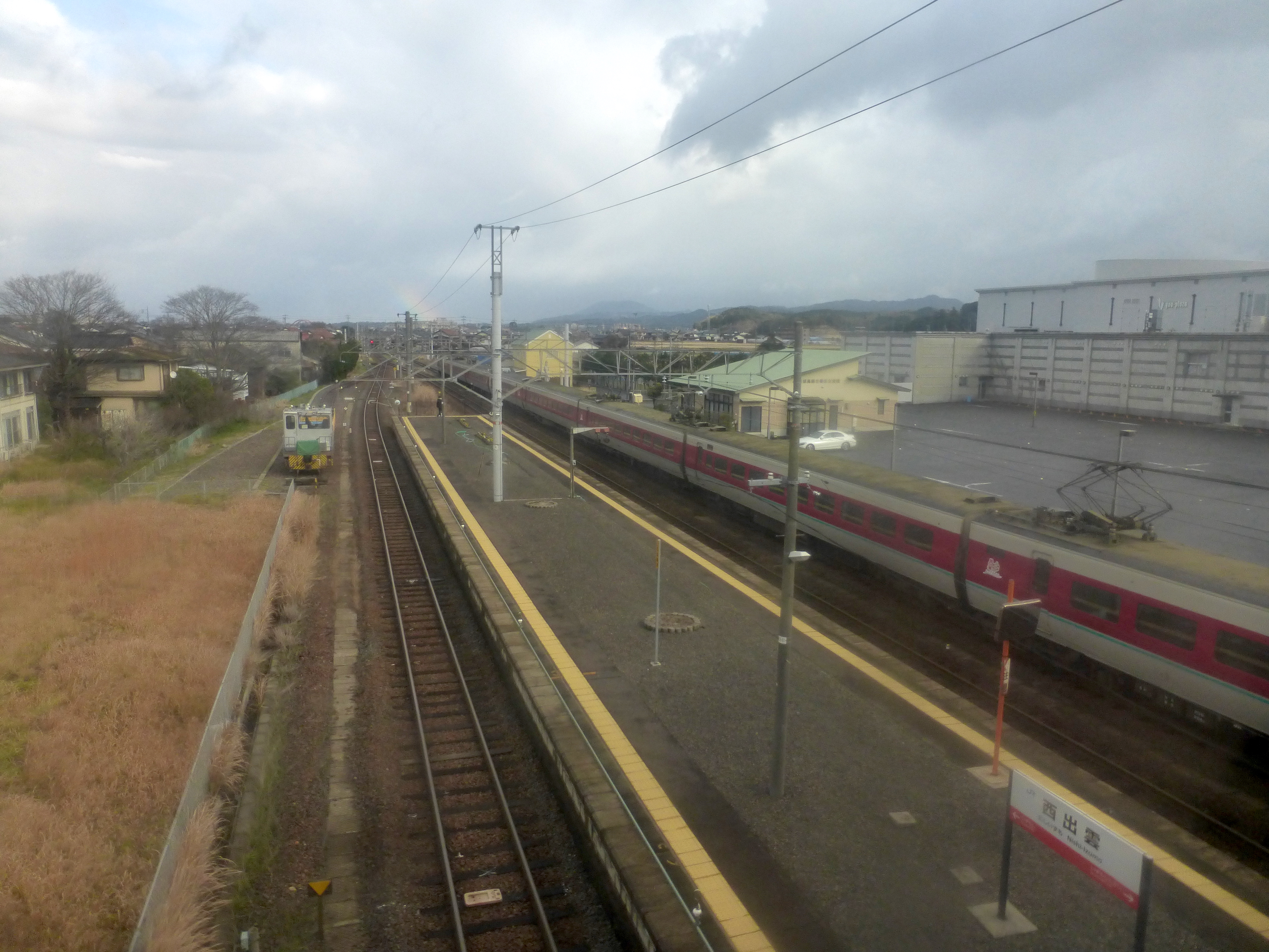 Nishi-Izumo Station platforms (西出雲駅のホーム)